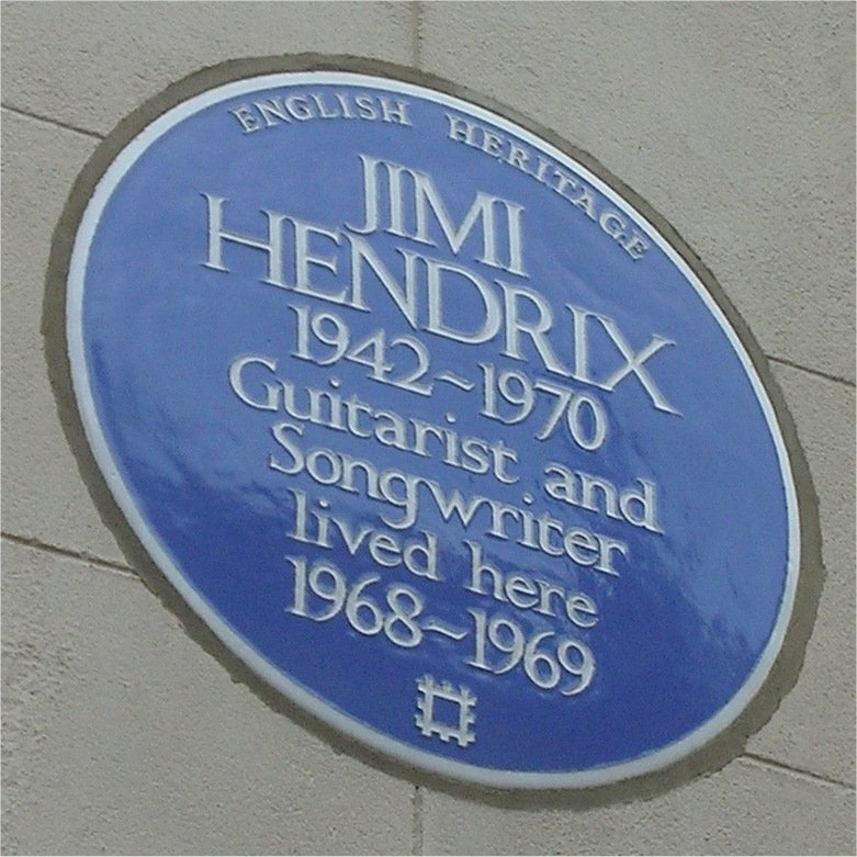 Blue plaque to Jimi Hendrix on his house at 23 Brook Street, London, England. Photographed by me 29 September 2006.